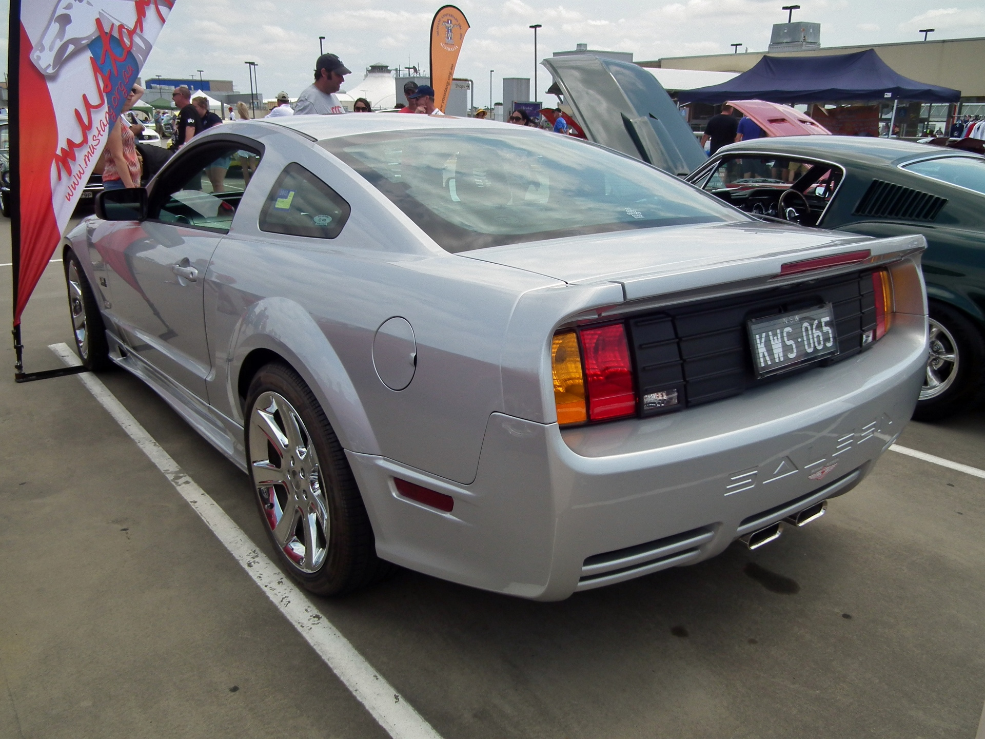 2005 Ford Mustang Saleen S281 coupe. Taken at the 2014 New South Wales All American Day, held at Castle Towers Shopping Centre, Castle Hill, Sydney.